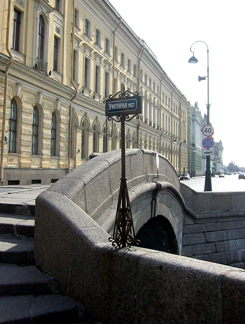 sign reading "Hermitage Bridge" (between Hermitage Theatre and New Hermitage in Saint Petersburg): I love these street signs.